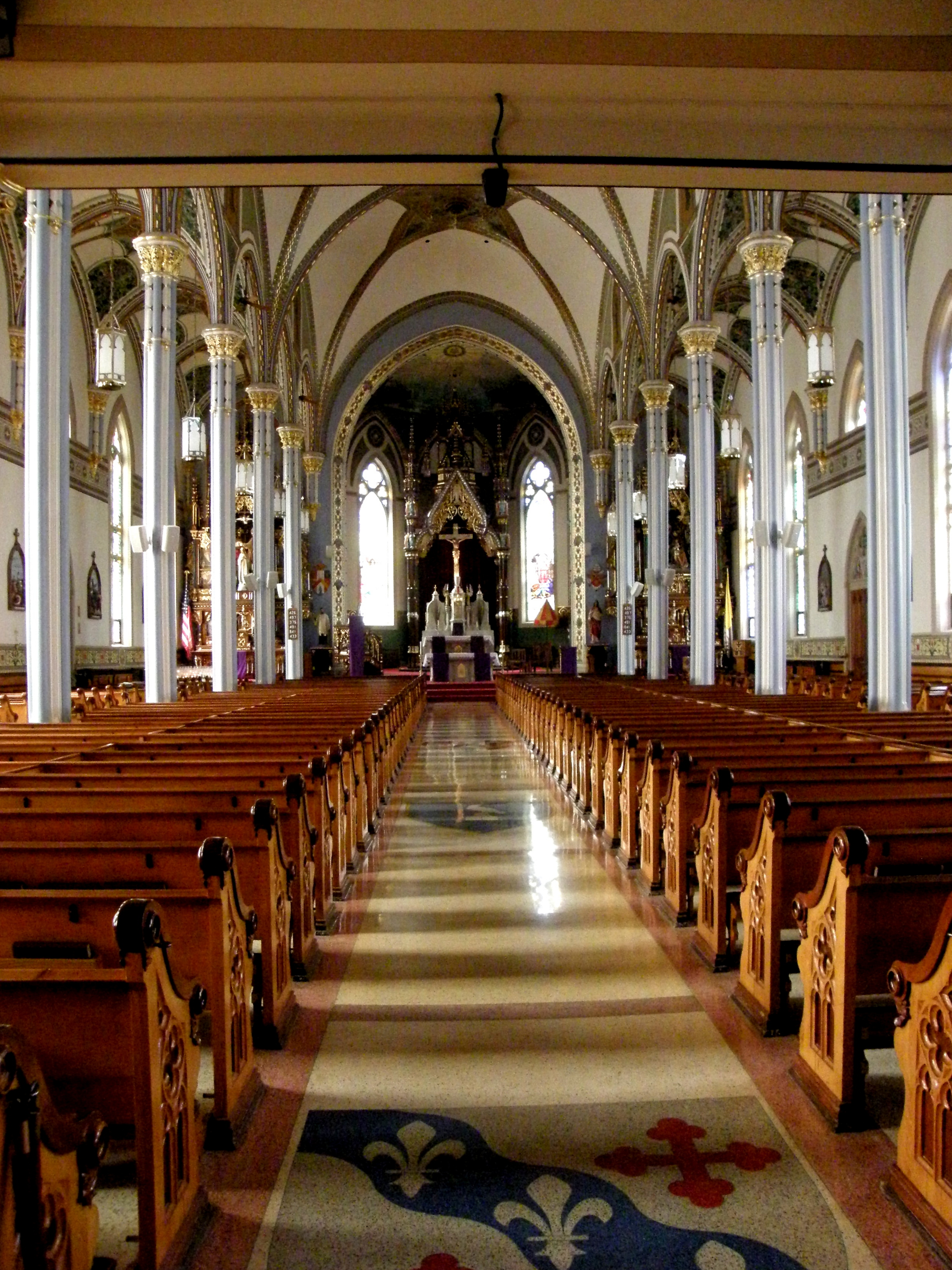 Basilica of Saint Francis Xavier (Dyersville, Iowa), interior, nave, view from rear